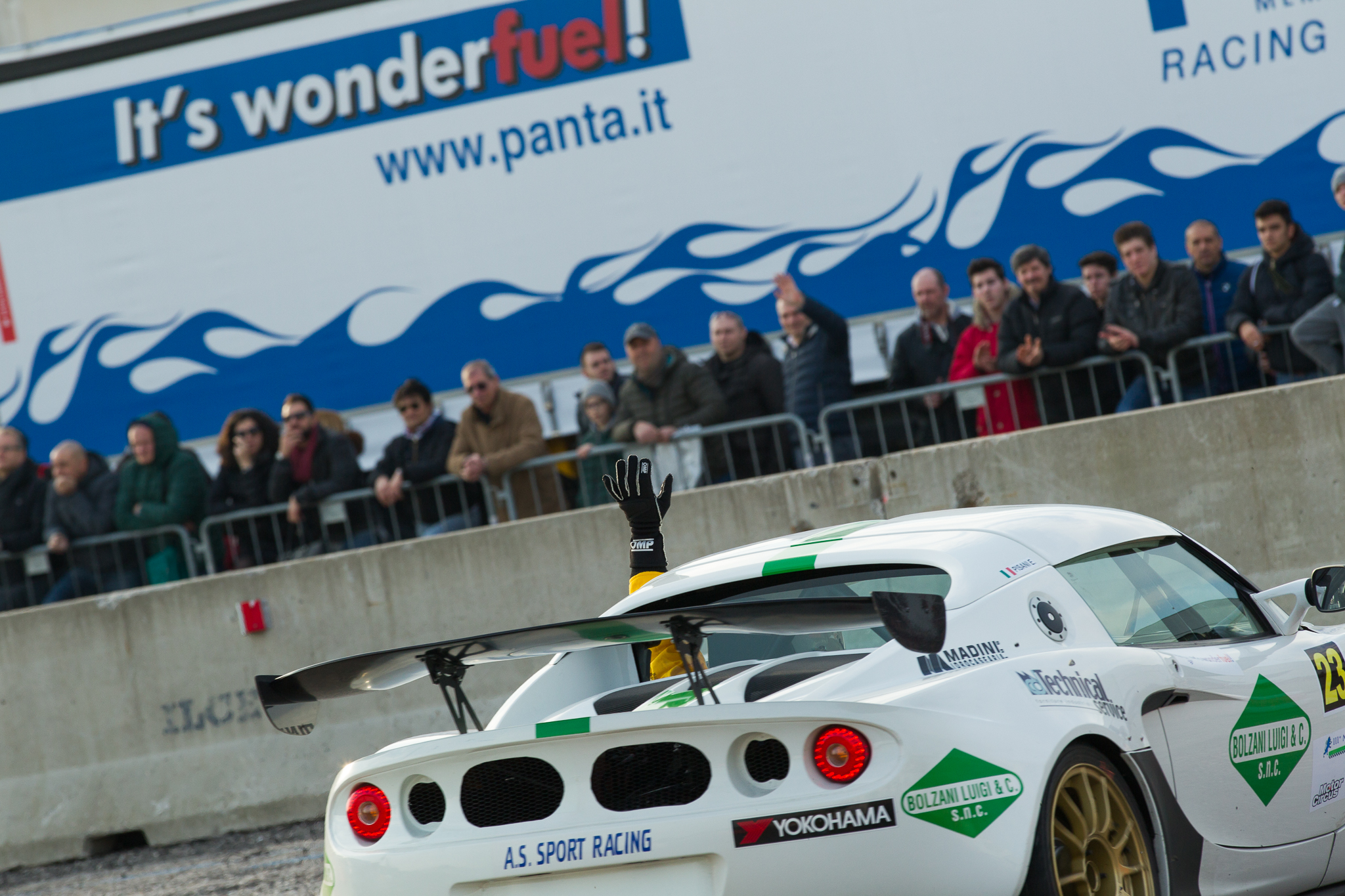 Pisani Eugenio - Lotus Cup